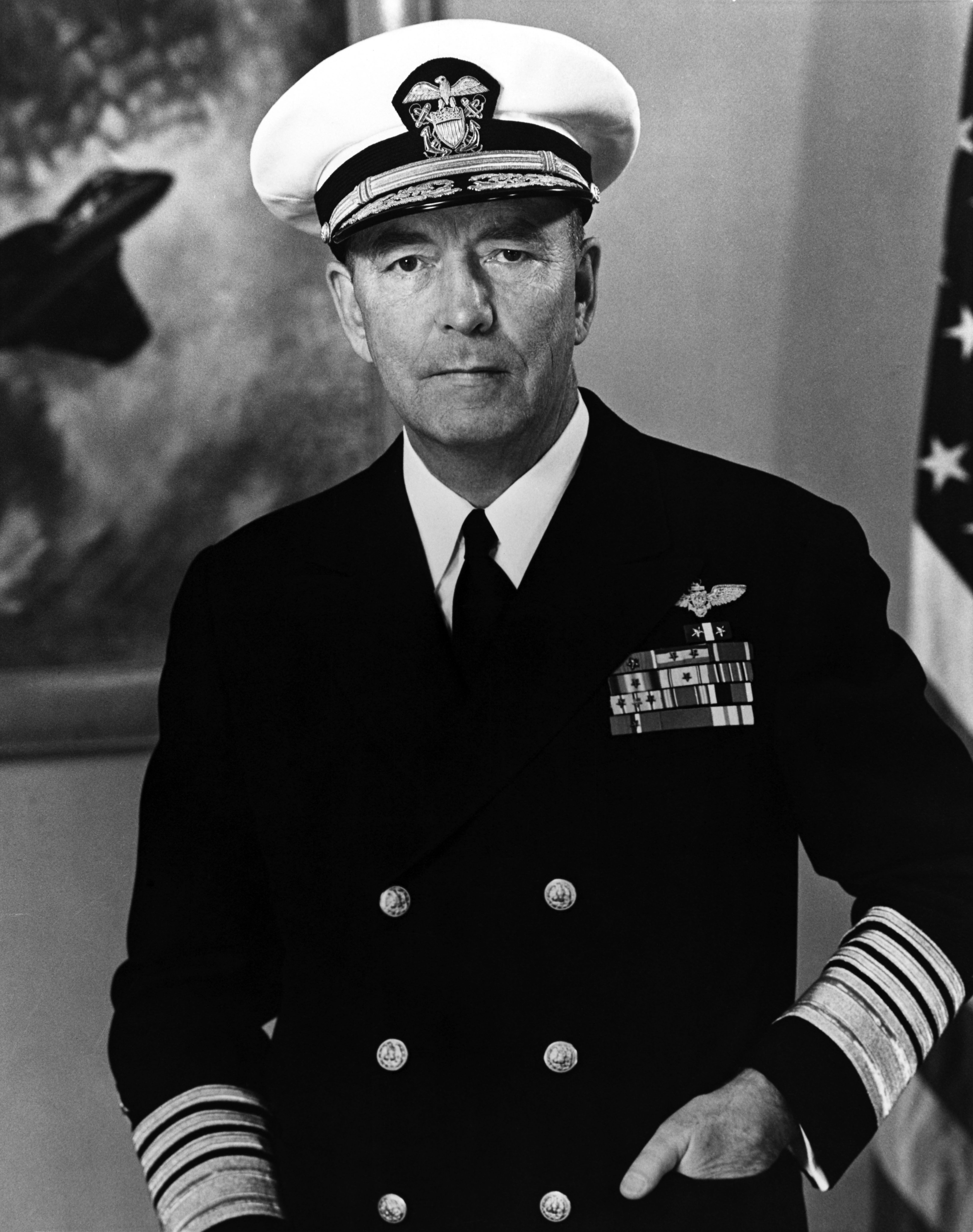 Admiral Arthur W. Radford, U.S. Navy, Chairman, Joint Chiefs of Staff